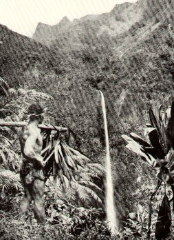 Fautaua Falls, Tahiti. View published 1920.